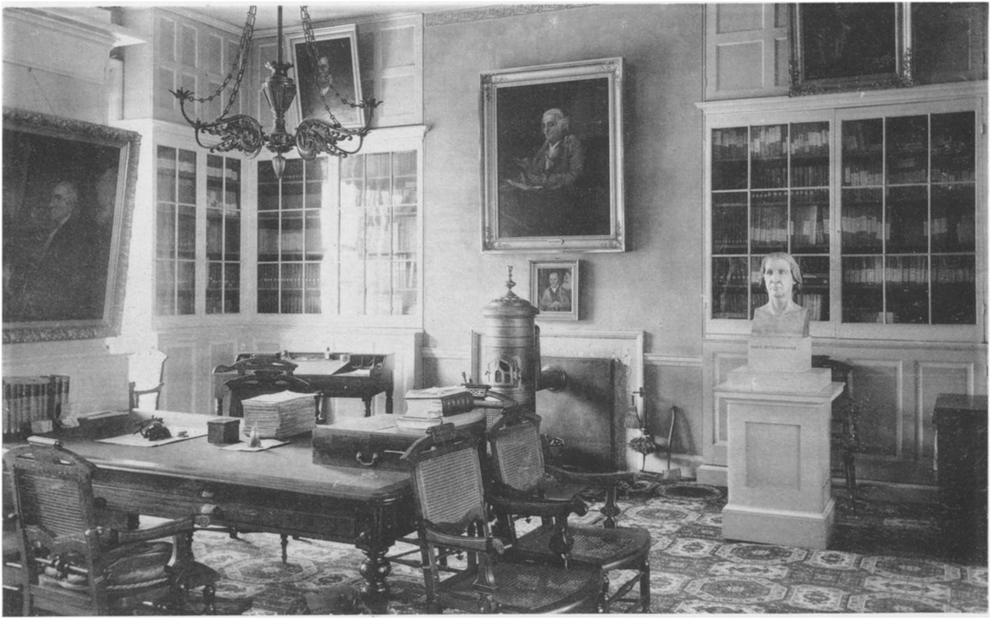 Meeting room of the American Philosophical Society